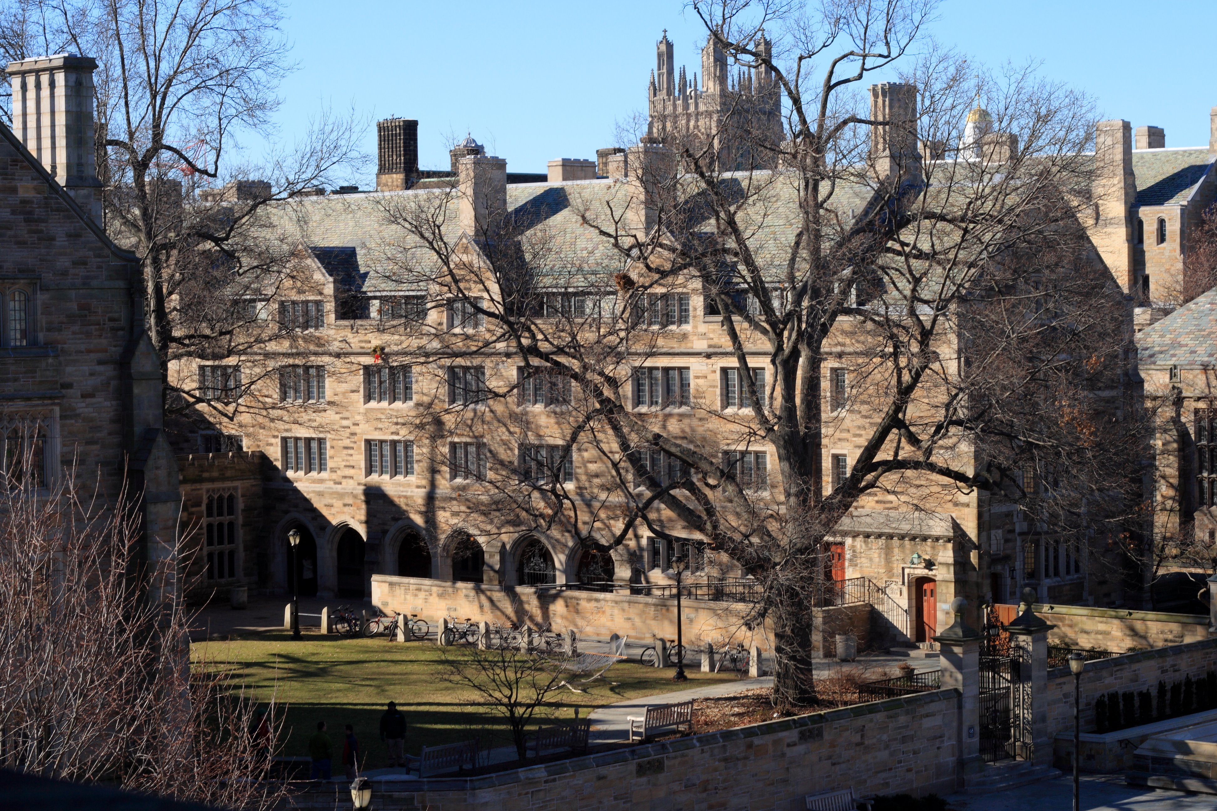 The south building of Berkeley College at Yale University, photographed from the third floor of Harkness Hall across Cross Campus